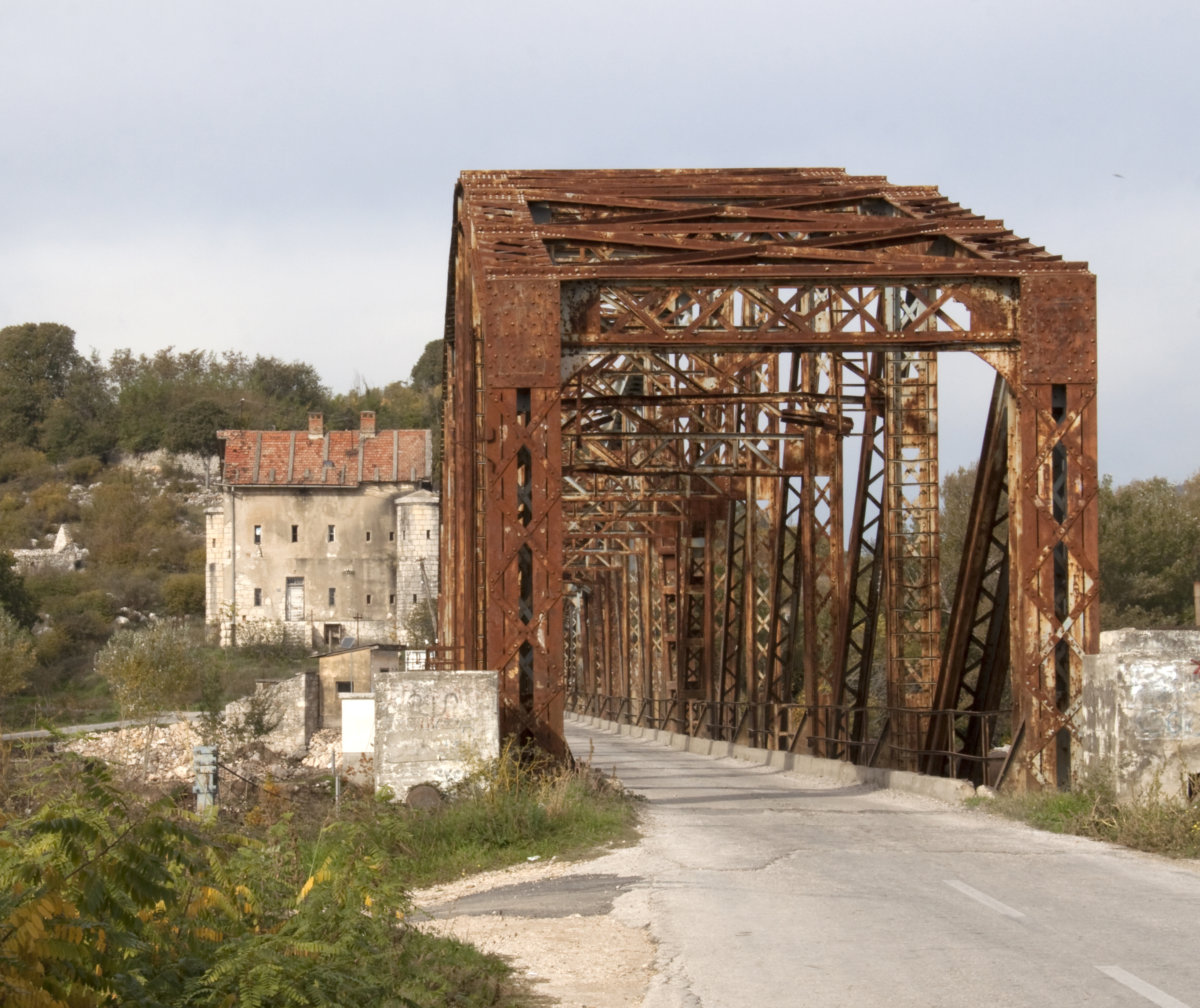 Old steel bridge just south of Capljina over the river Neretva